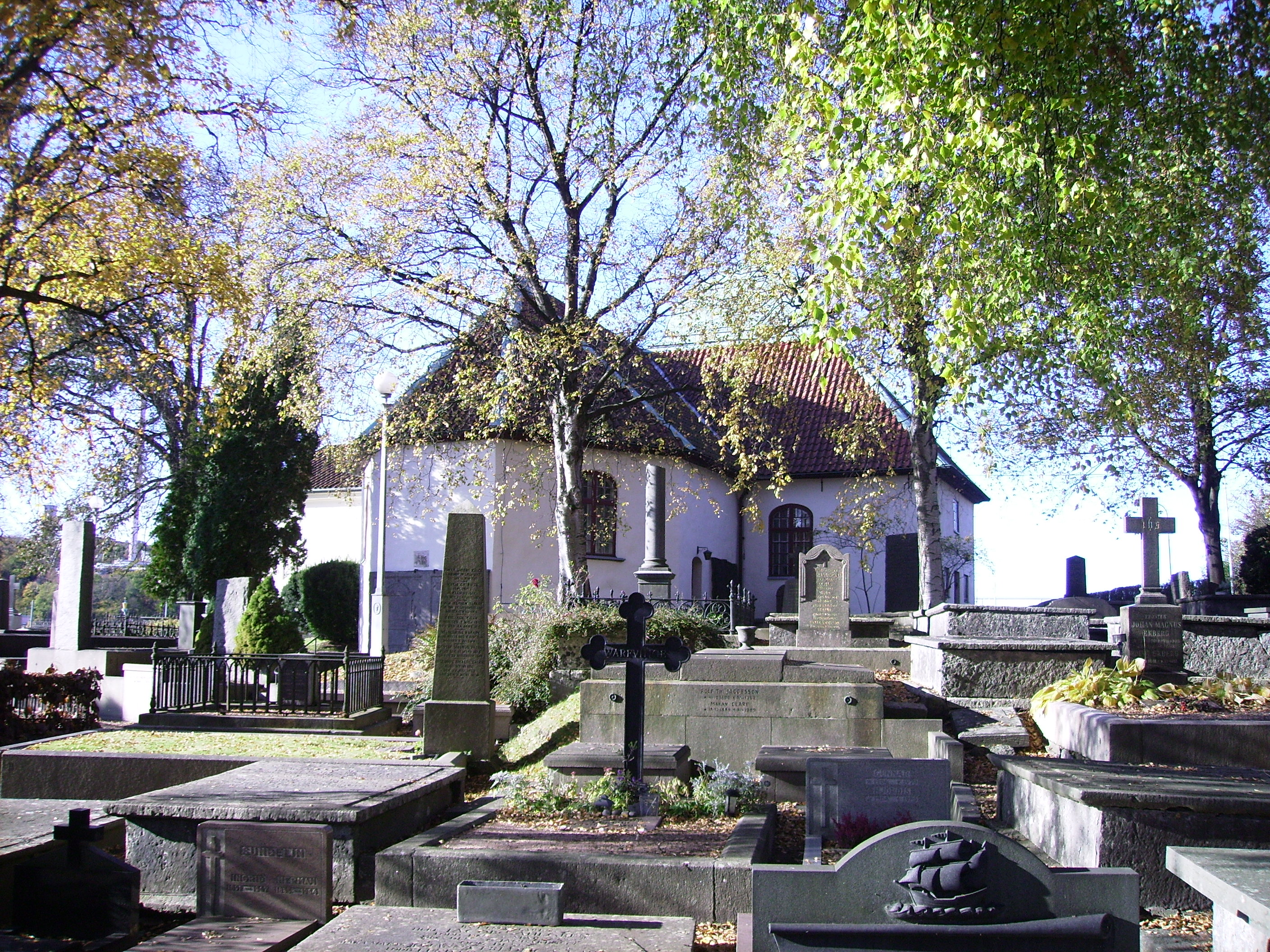 Picture of Örgryte gamla kyrkogård in Göteborg